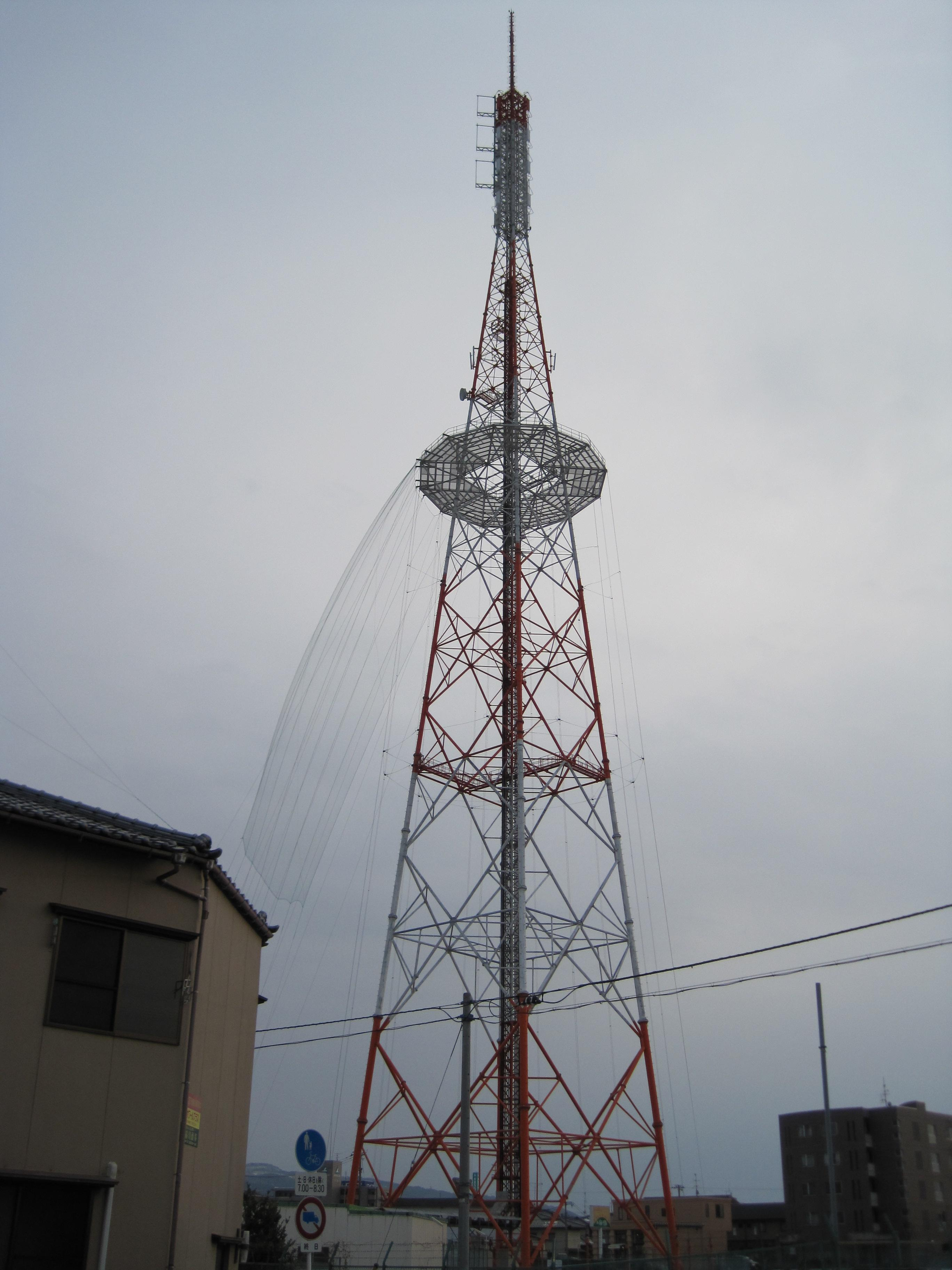 Radio Tower of Hokuriku Broadcasting Corporation (MRO), FM Ishikawa. MRO AM:JOMR 1107kHz 5kW MRO FM:94.0MHz 1kW FM Ishikawa:JOHV-FM 80.5MHz 1kW